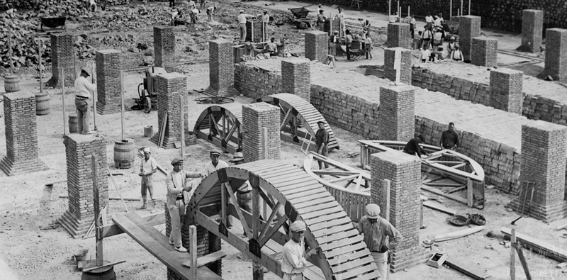 Building the water tank